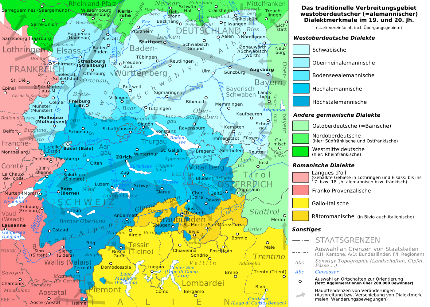 THE PNG VERSION IS TO BE EMBEDDED IN THE ARTICLES, THE SVG-VERSION (SEE BELOW) CAN BE USED TO WORK WITH. The traditional distribution area of the western upper german (=alemannic) dialects in the 19th and 20th century. Source: Mainly these articles in the german wikipedia: * Alemannische Dialekte * Grenzorte des alemannischen Dialektraums * Traditionell rätoromanischsprachiges Gebiet Graubündens and * Sprachen und Dialekte in der Region Elsass, plus the (younger) literature, which is mentioned there. This area, having been quite stable for at least some 300 years up to the 19th century, saw consecutively more or less strong changes by industrialisation, population growth, migrations and political developments.